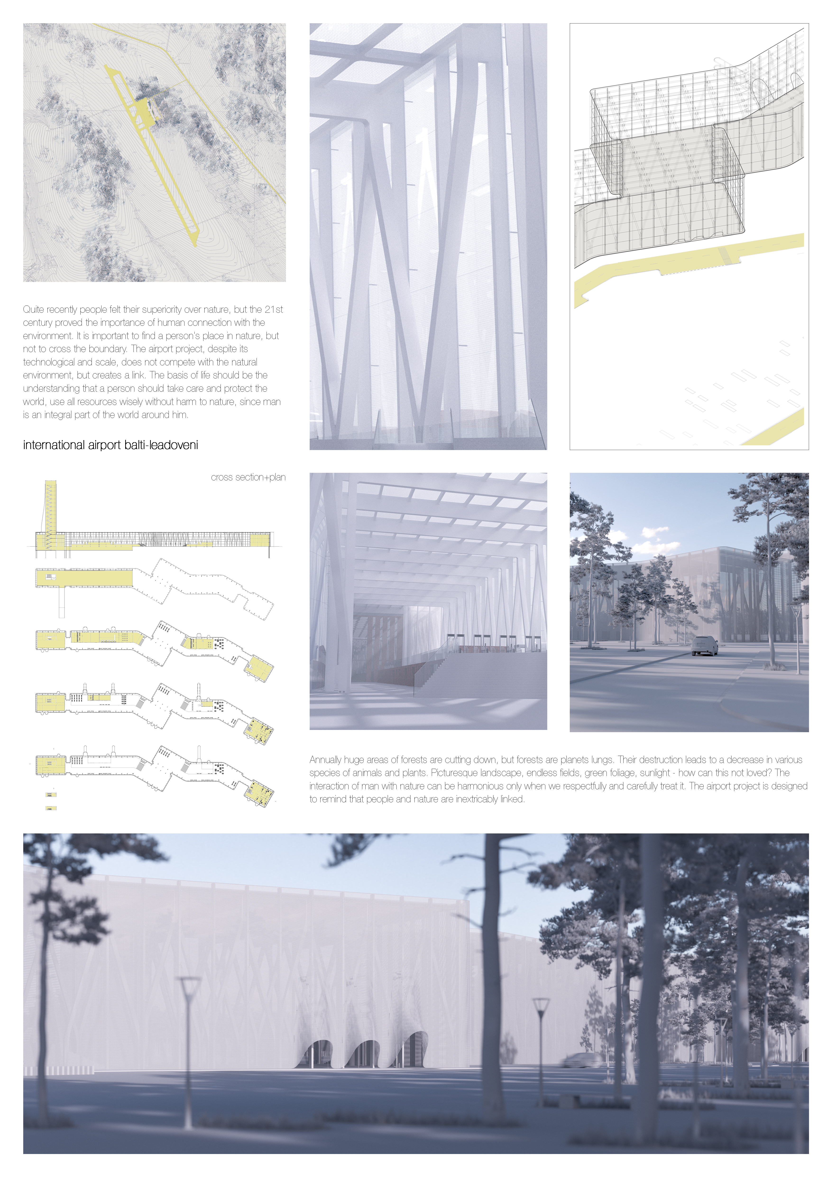 Bălți International Airport